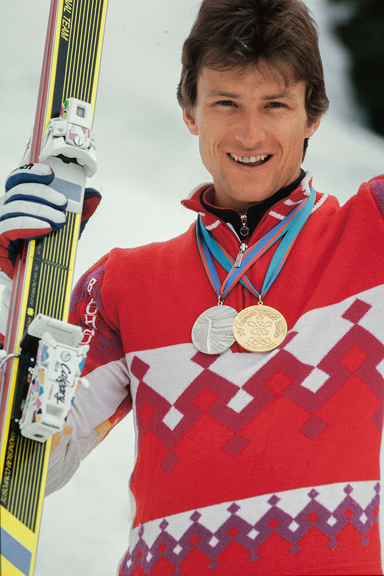 Hubert Strotz, 1988, Gold and Silber, Olympic Games 1988 Calgary